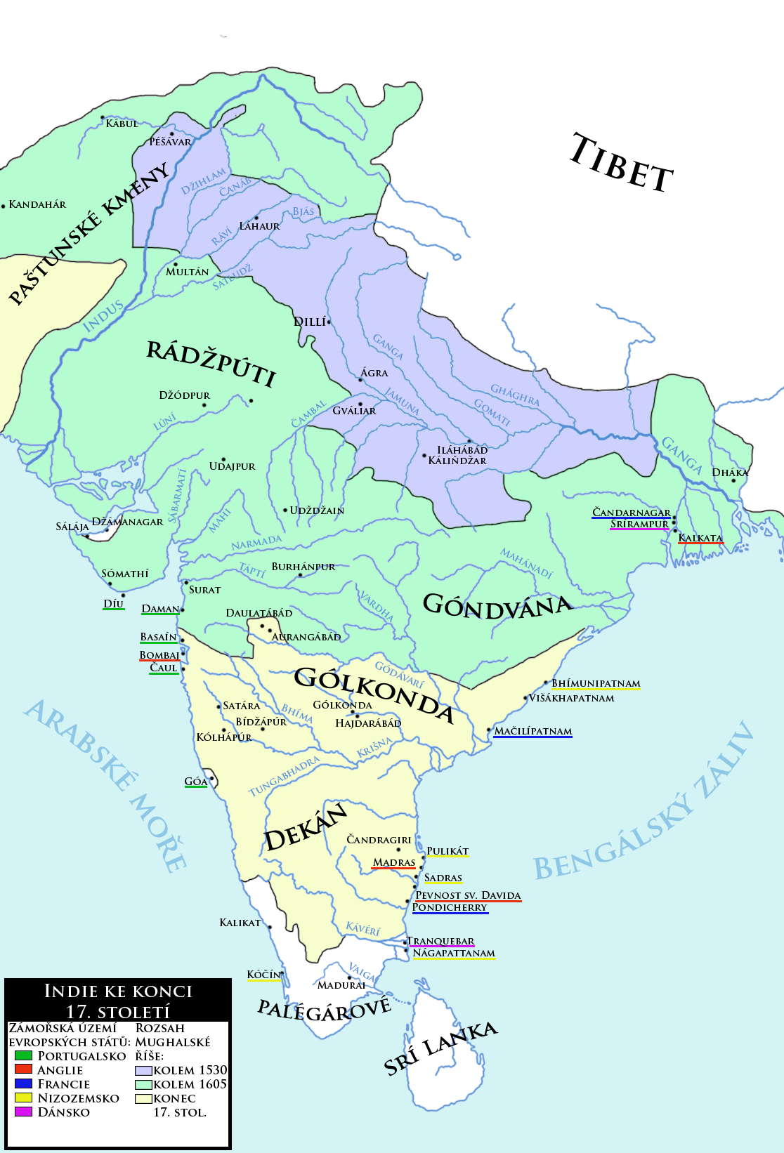 India at the end of the 17th century with expansion of the Moghul Empire and basic overview of European colonies in the area. (Czech language)